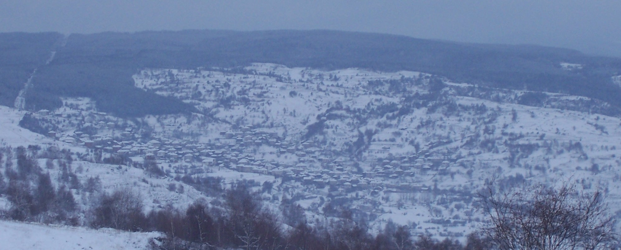 The village of Lyubcha.